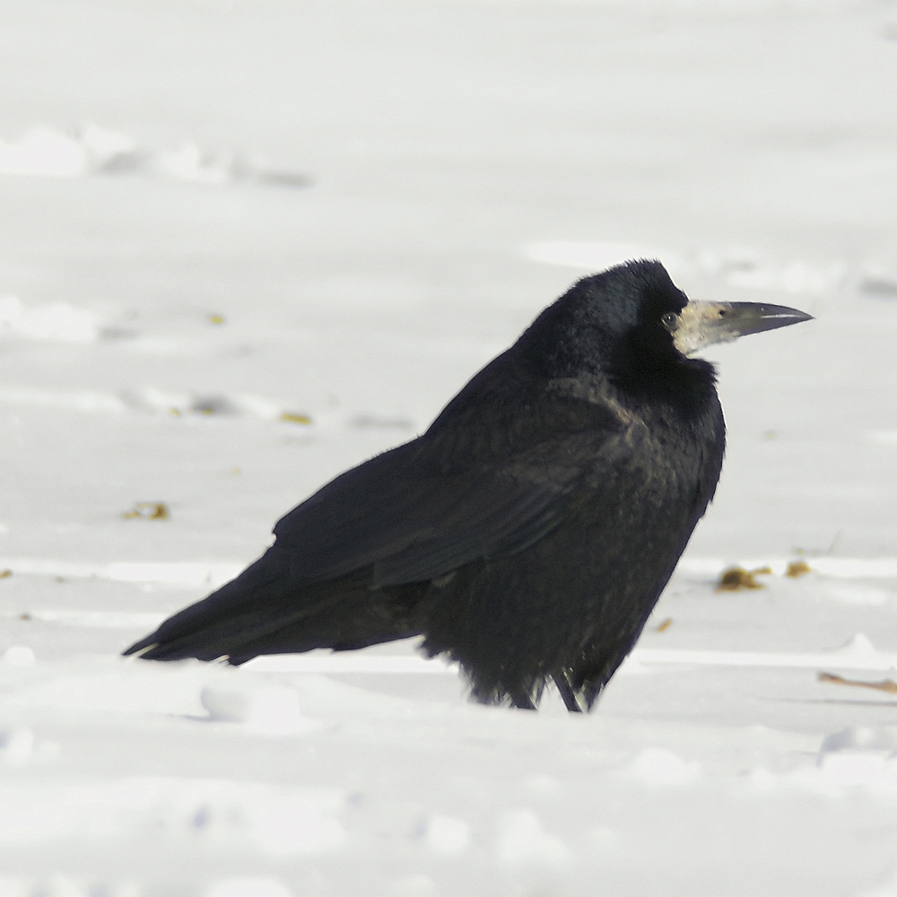 A Rook in winter